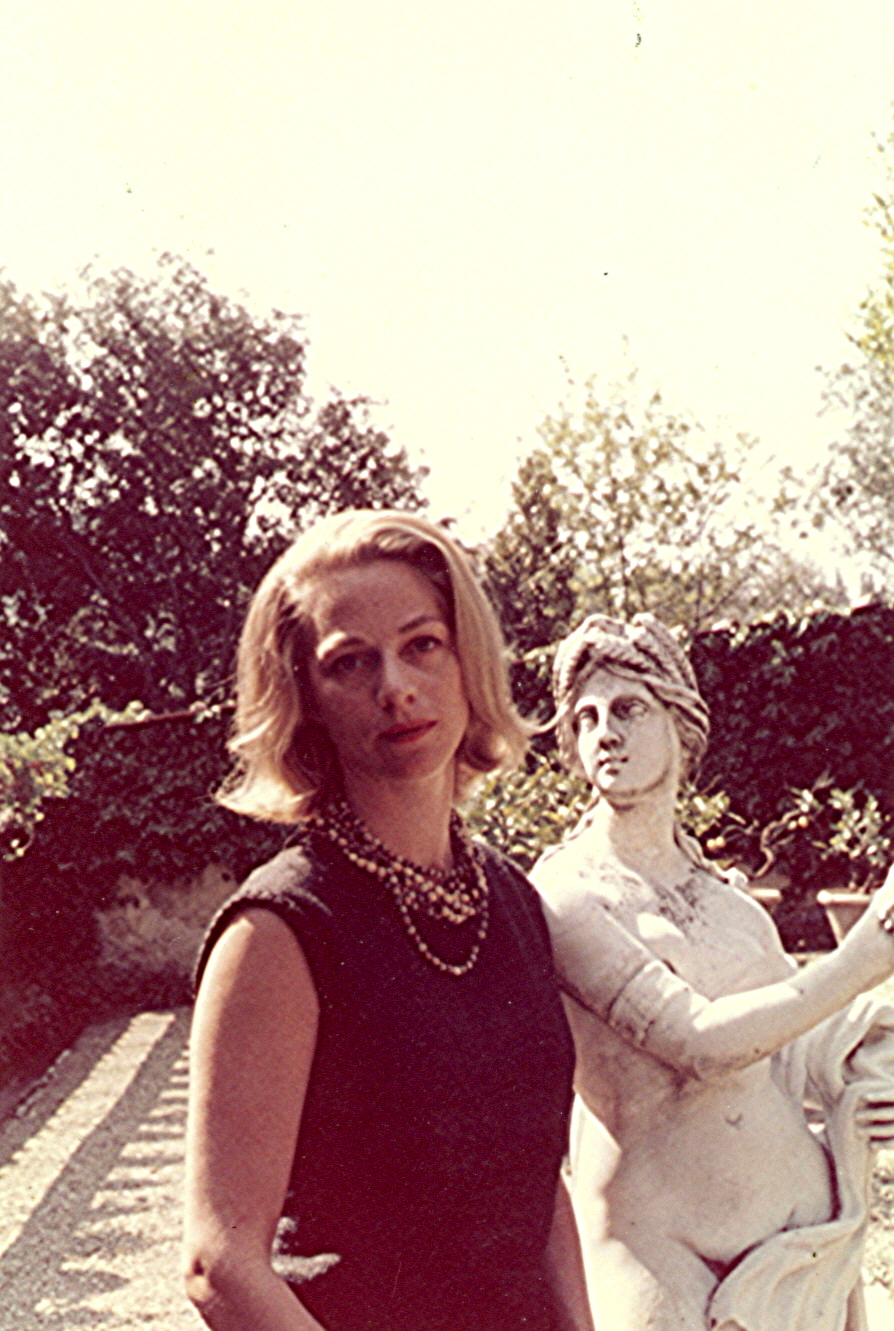 Janet Cox-Rearick Waldman as a Fellow of Villa I Tatti May 1963